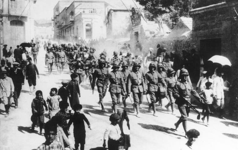 German soldiers (from the Asien-Korps?) marching through the town of Jerusalem, Palestine; ca. 1916/17